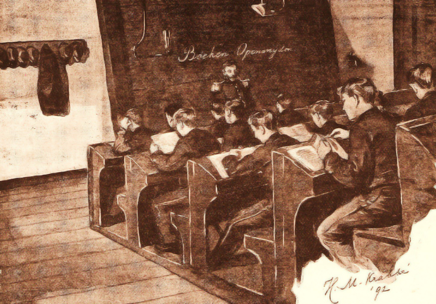 Military Academy. "Cut your books open"